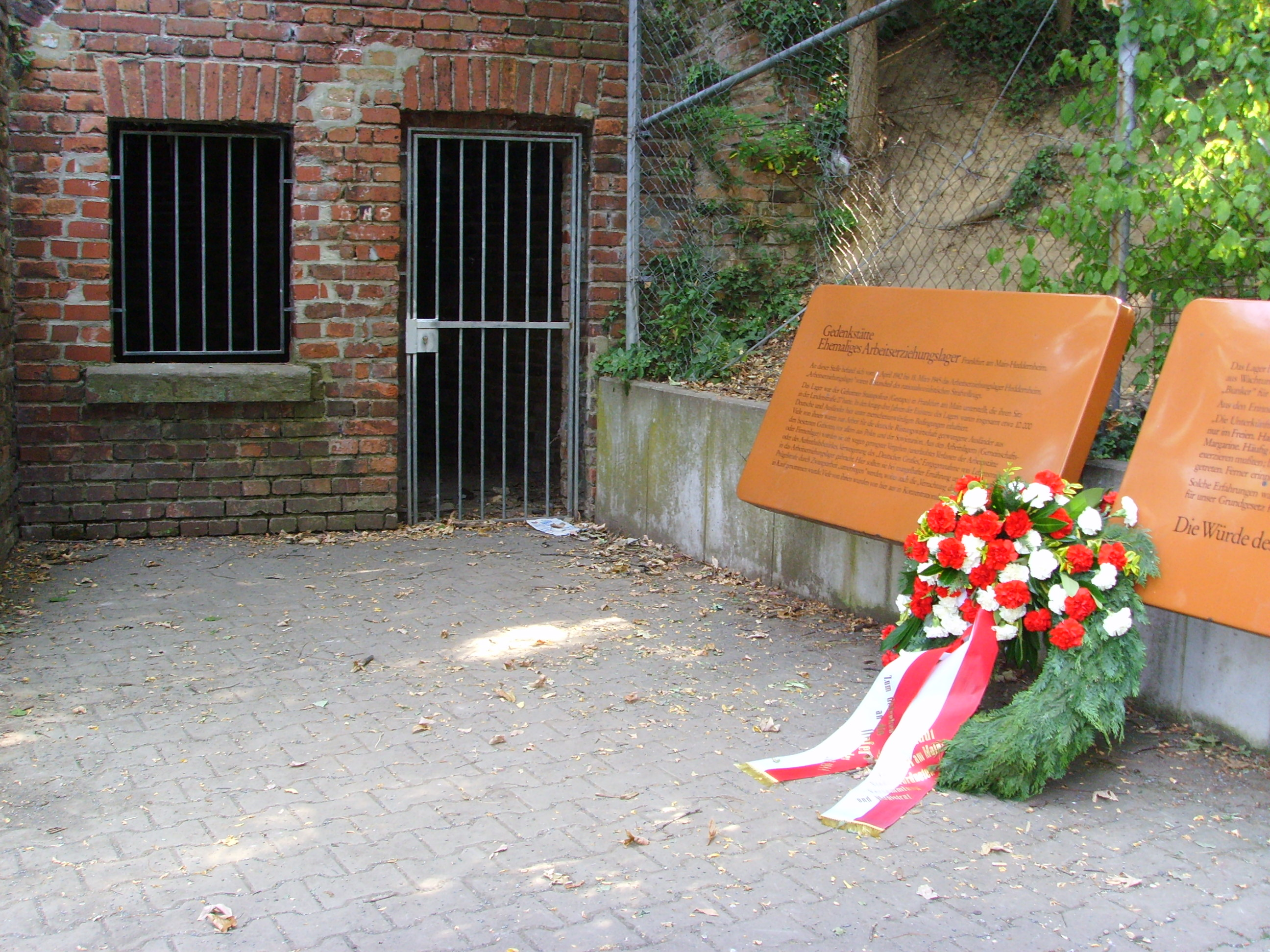 Frankfurt-Heddernheim concentration camp "Arbeitserziehungslager Heddernheim", memorial place. The function of the adit entrance during Nazi time is unclear. It might have been a shelter tunnel.